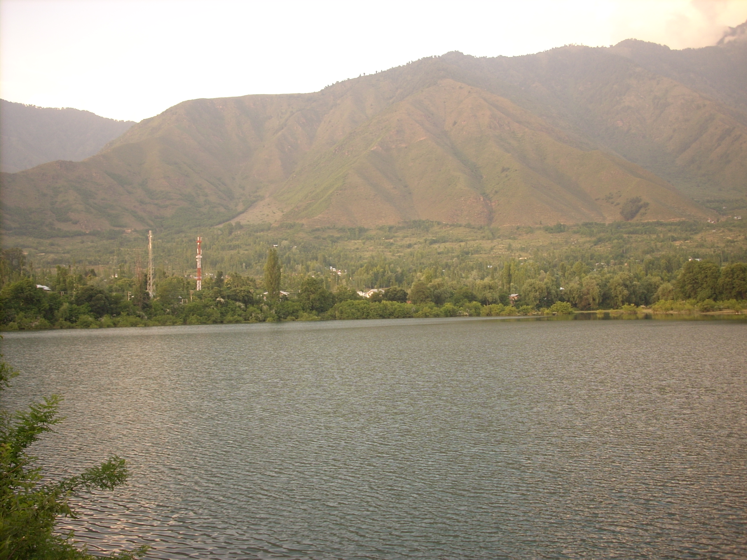 Sarband water body as seen from Harwan Garden in Srinagar city(Indian Administered Kashmir) with Dachigam National Park in the background.